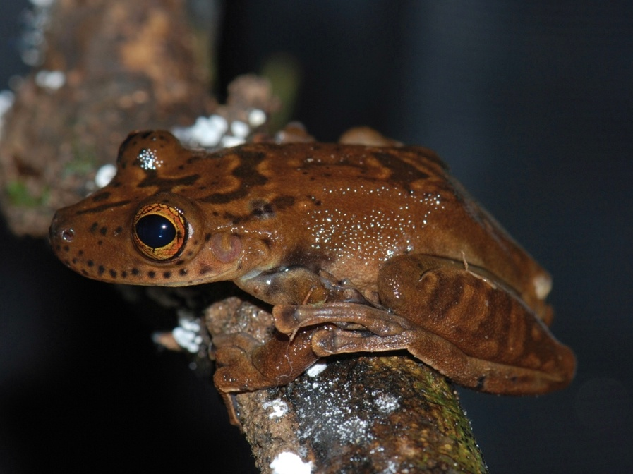 INPA-H 34591, adult female from municipality of Porto Velho, State of Rondônia